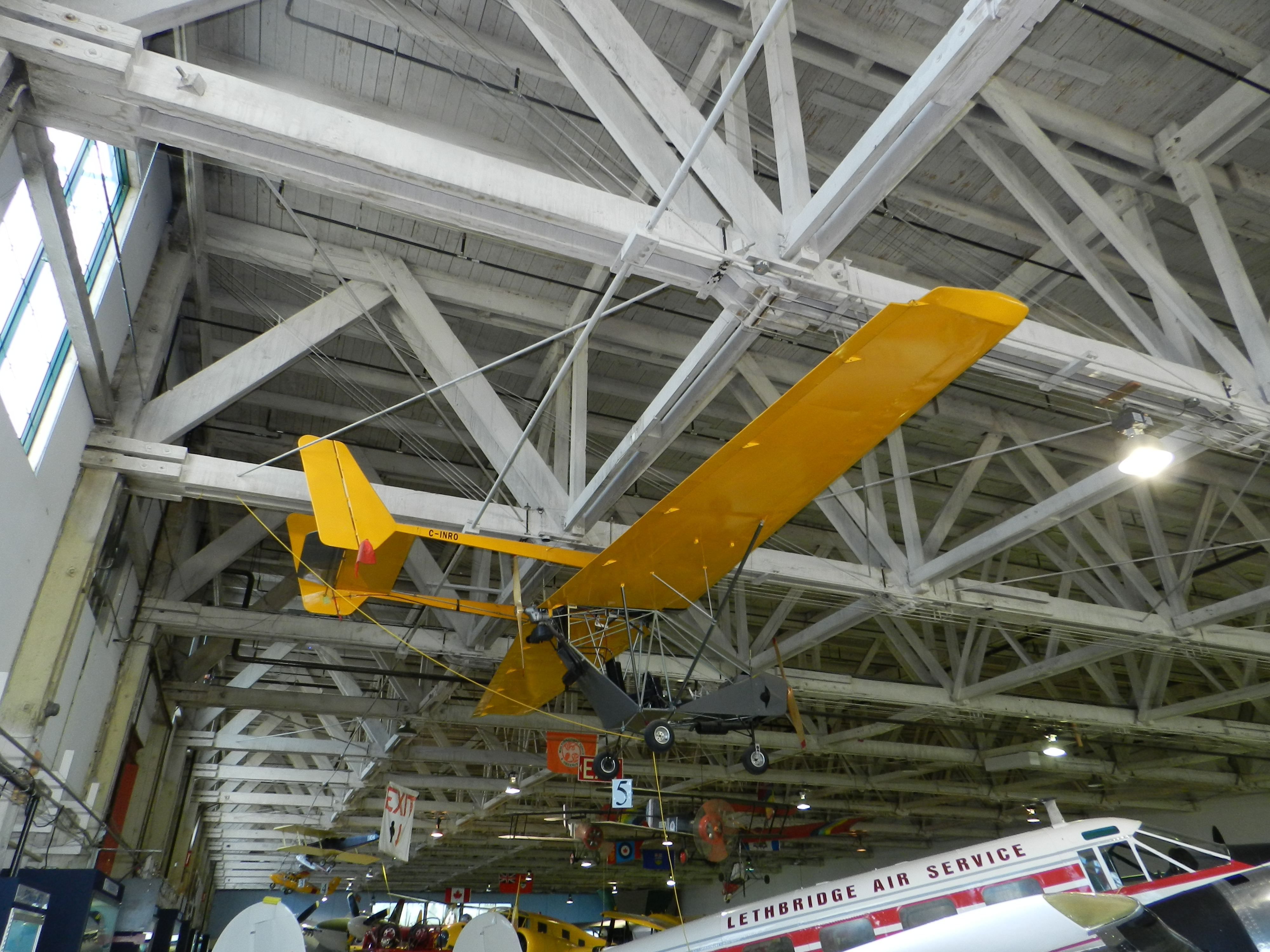 C-INRO Canaero Dynamic Toucan T-IV at the Alberta Aviation Museum